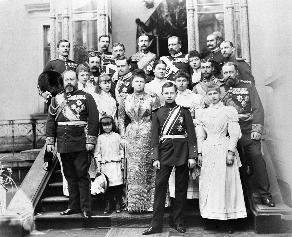 Reunion in Coburg for the majority of Alfred Hereditary Prince of Saxe-Coburg and Gotha